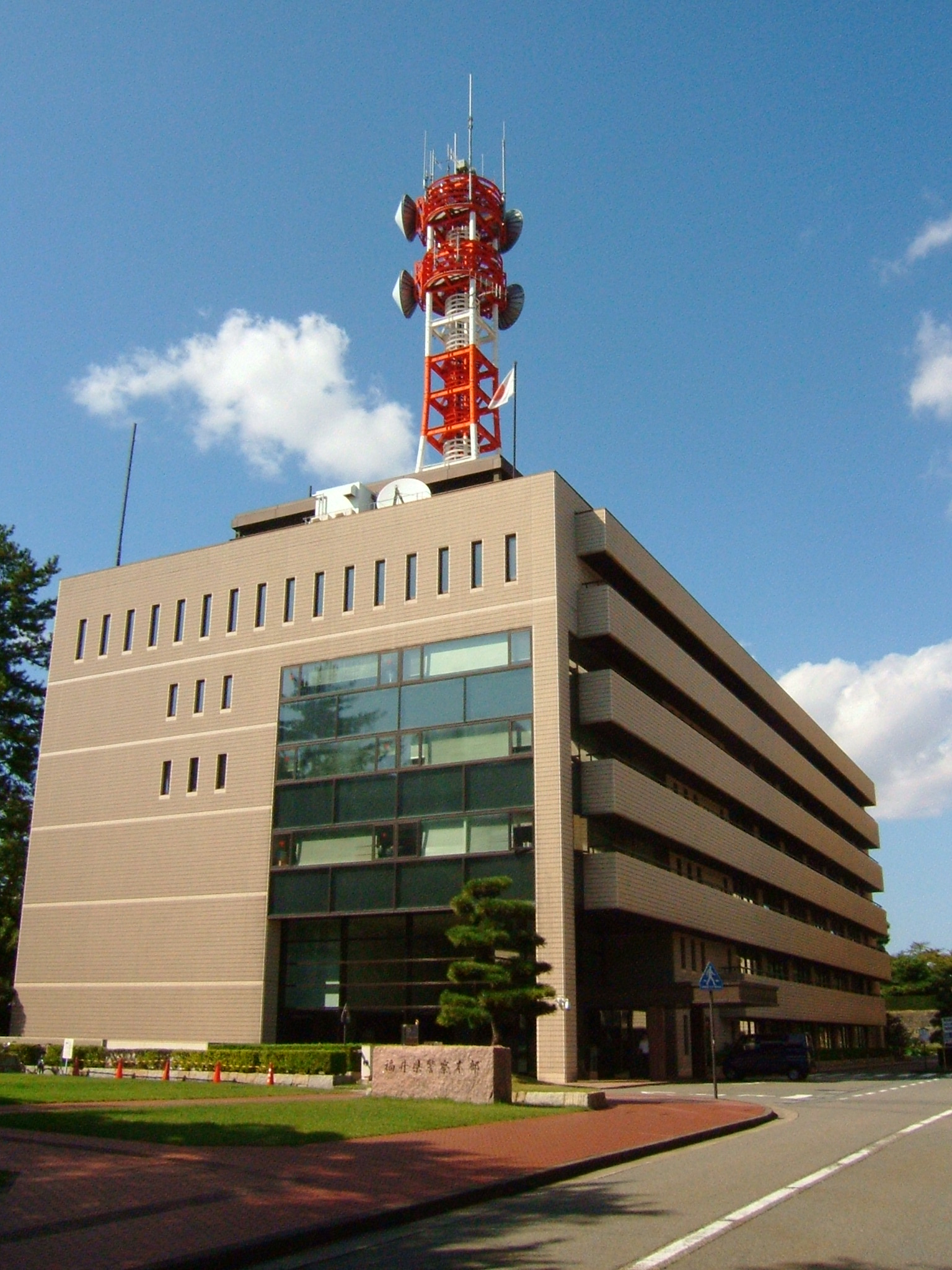 Fukui Prefectural Police Department(Fukui city, Fukui prefecture)